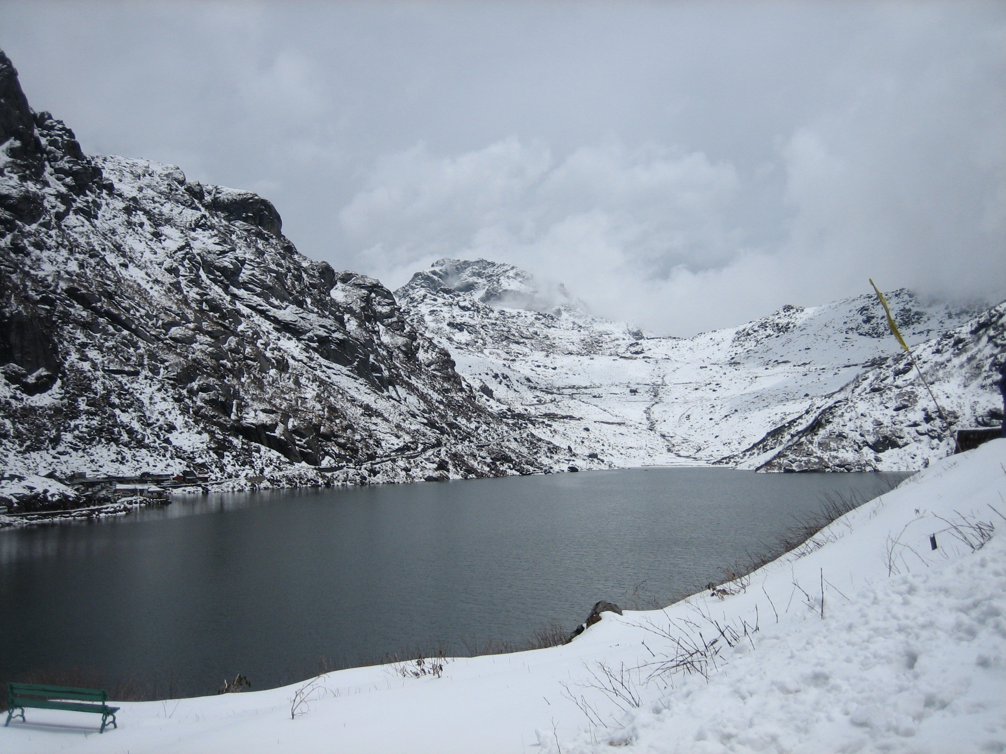 View of the Tsomgo lake (Sikkim, India) in april 2007